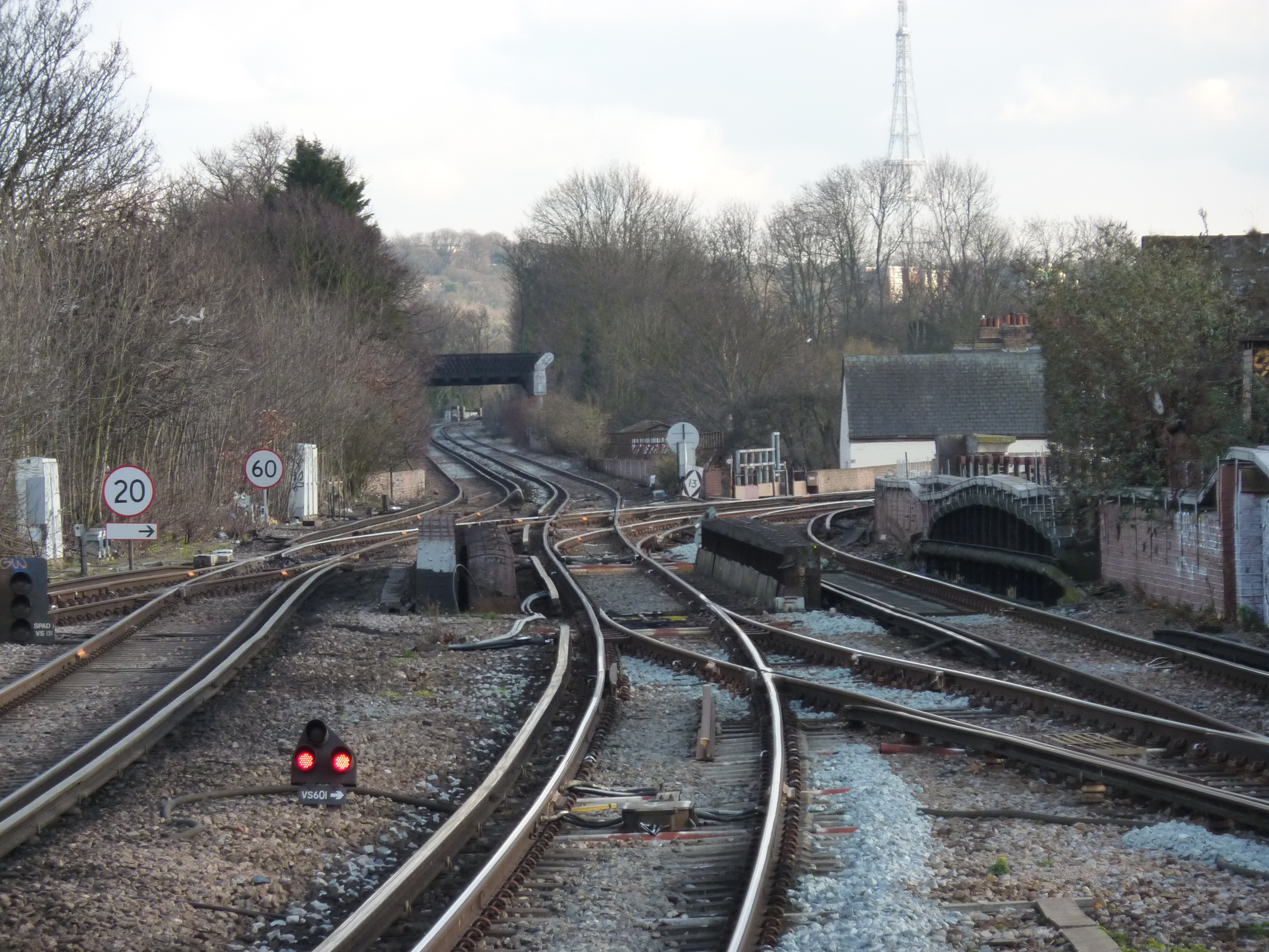 The junction south of the station where the line to/from West Dulwich (left) and Tulse Hill (right) diverge.